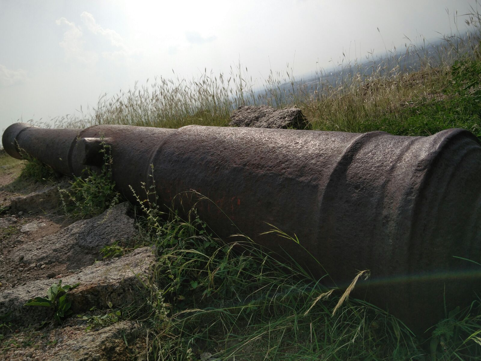 this is one of the two cannons found at the fort.